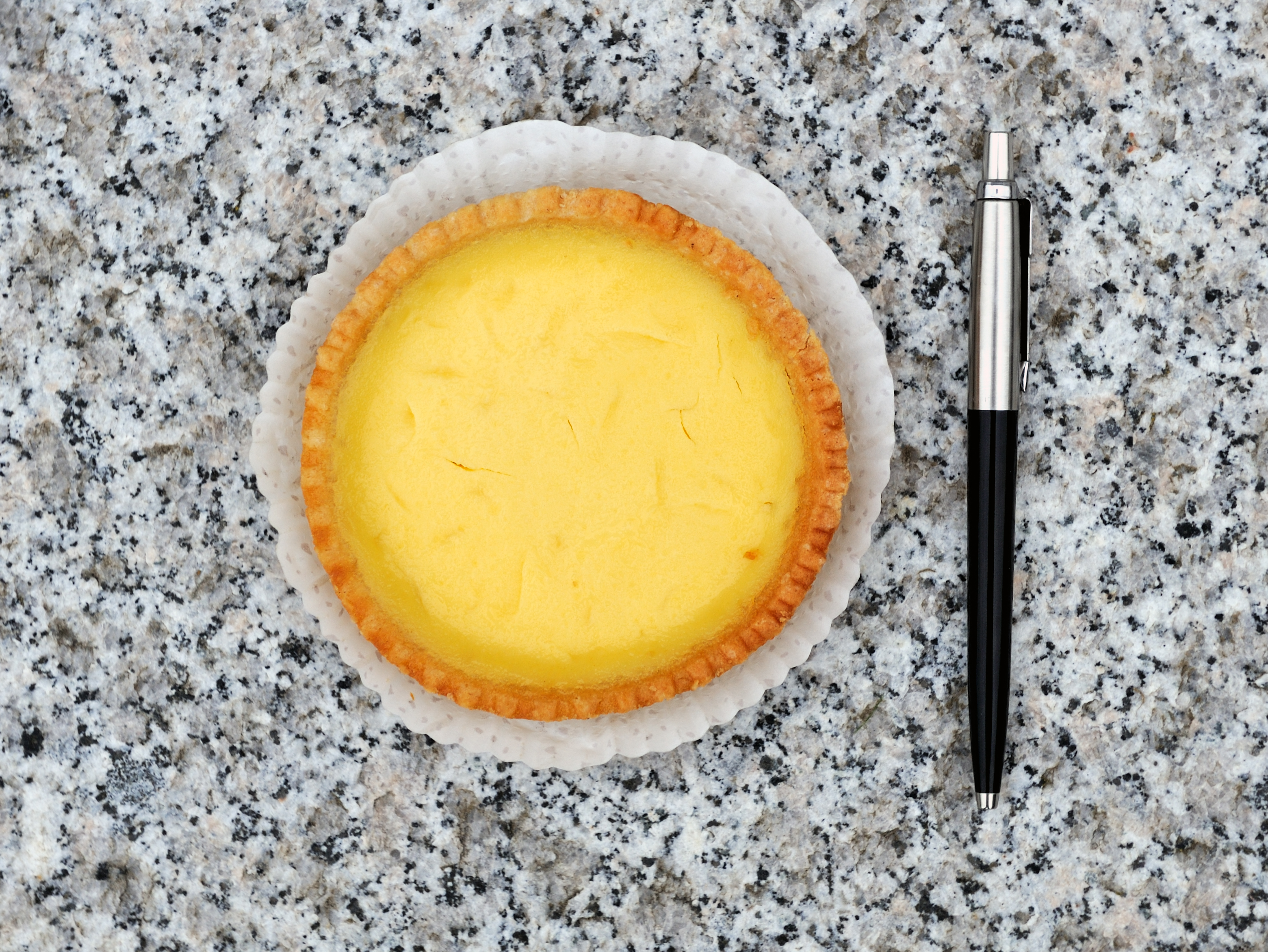 Luxembourg City, Sichenhof: Taditional tartlet distributed on Fliederchesdag (Tartlet Day), the third Sunday after Eastern. The tradition goes back to the leprosery which existed at Sichenhof from the 13th to the 18th century.